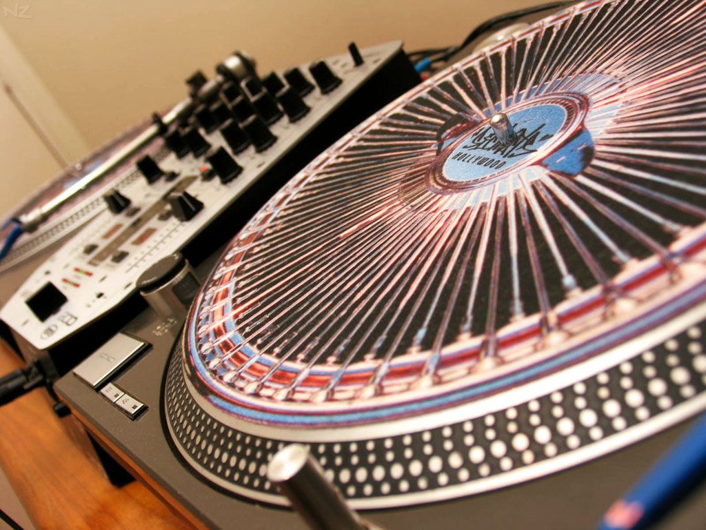 A Technics SL-1210 MK2 turntable with a Sicmat splimat